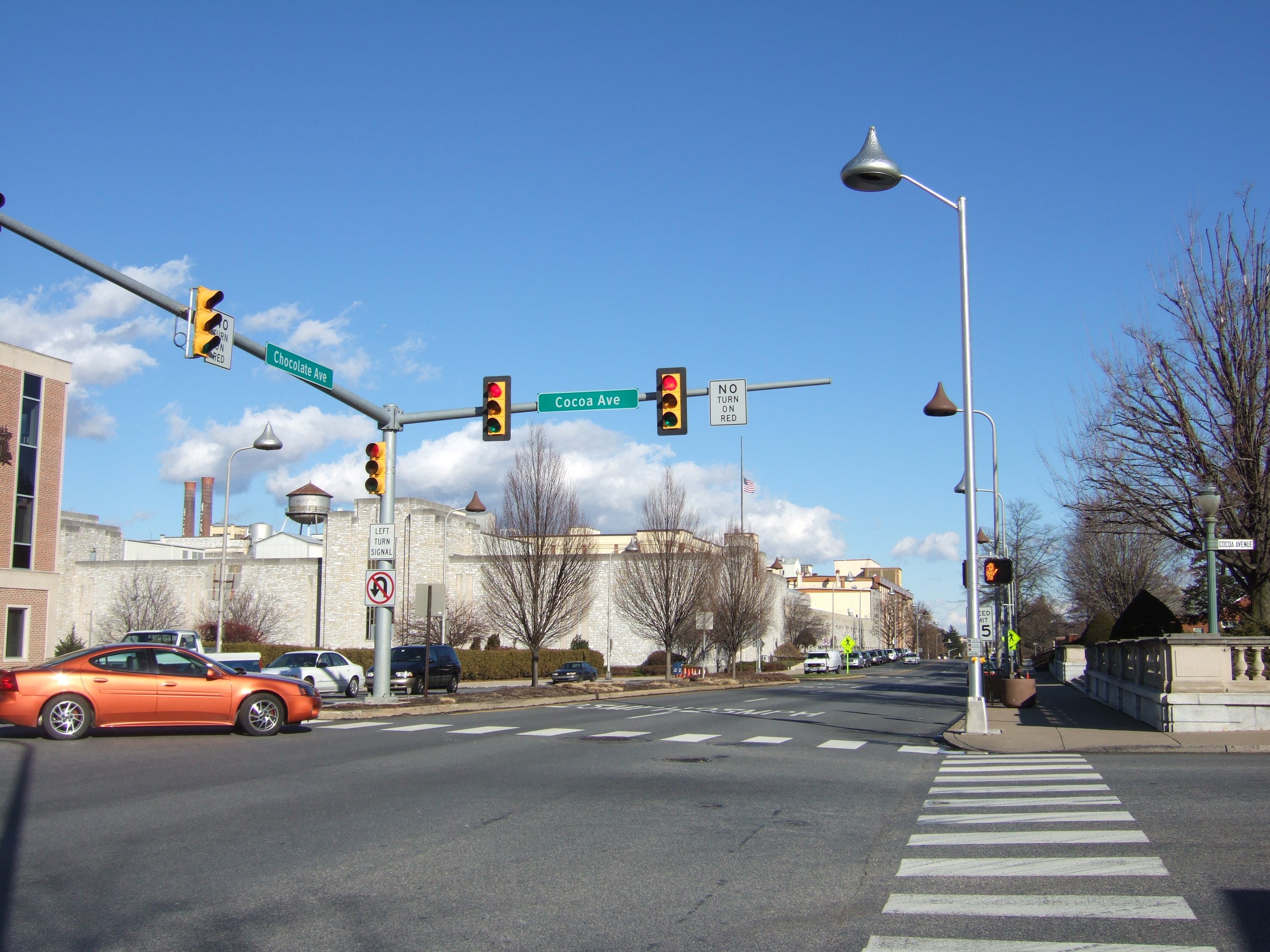 Taken by the author